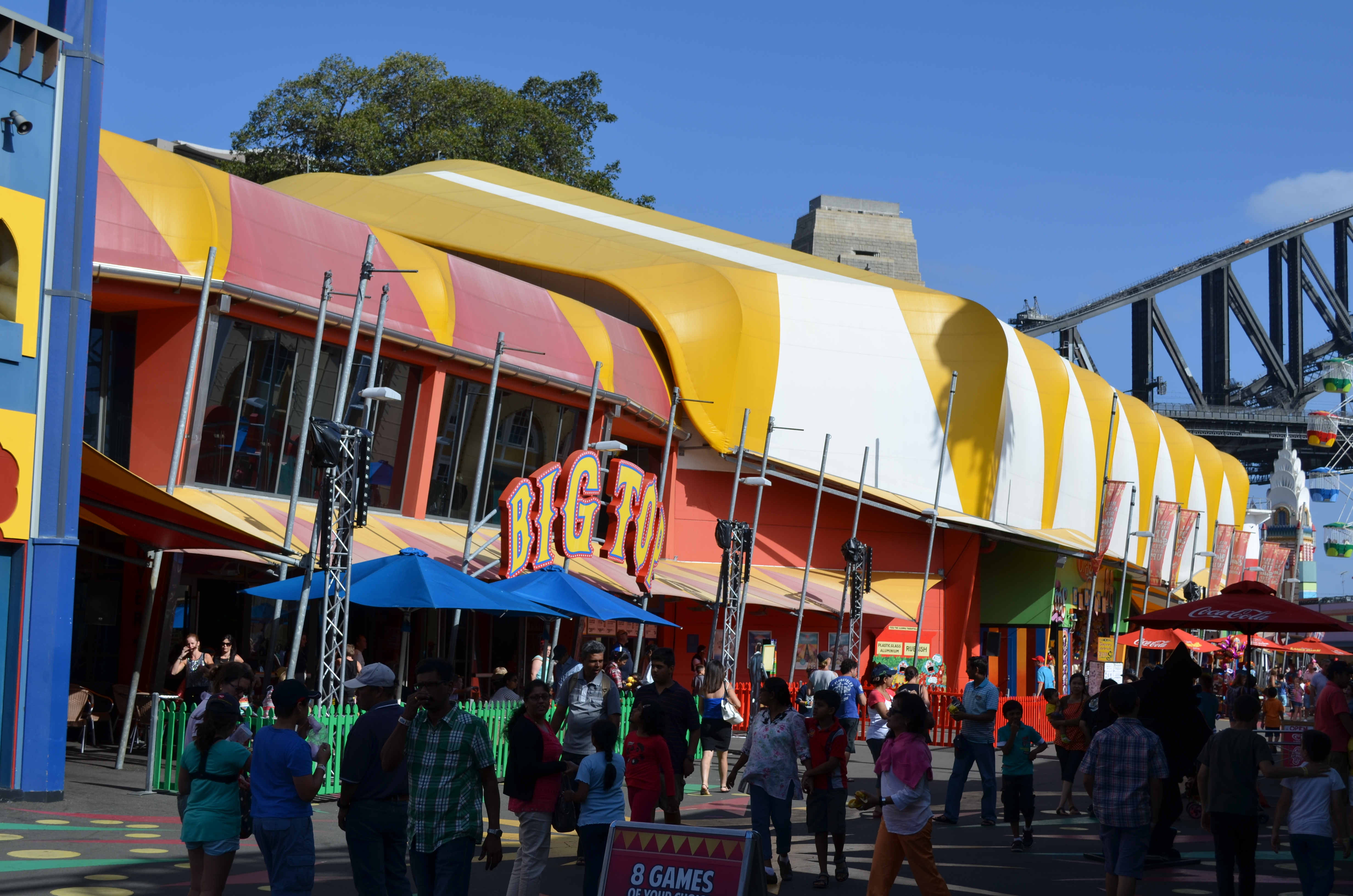 The Big Top multipurpose modular arena at Luna Park Sydney